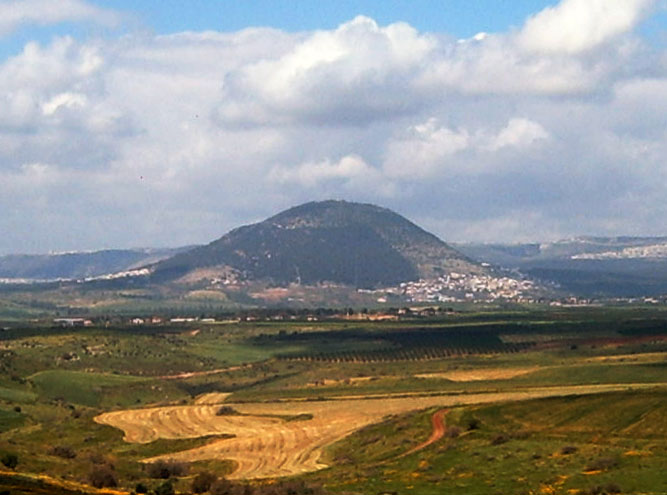 Looking across the Jezreel Valley to Mount Tabor